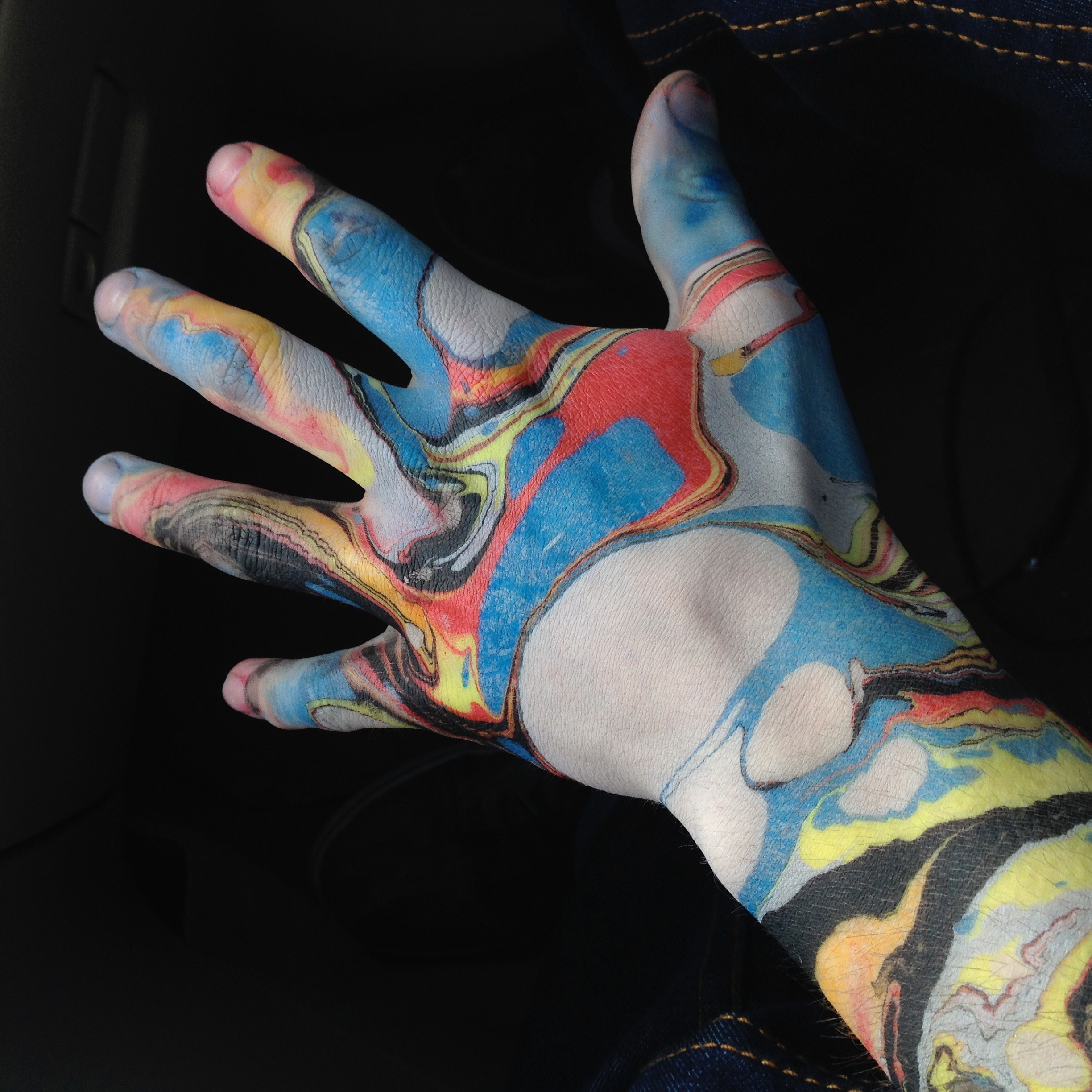 Body marbled hand from studio painting at Black Light Visuals.